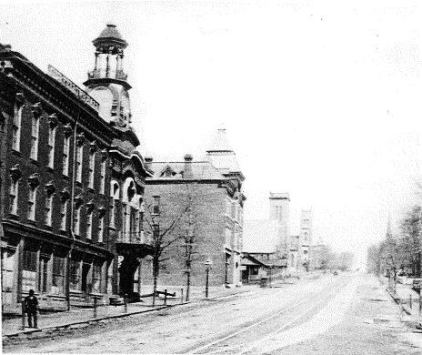 Looking north on Brady Street from Fifth Street in Davenport, Iowa. On the left is the Wupperman Block/I.O.O.F. Hall, the Old City Hall (with the tower) and the Cook Memorial Library, which has been torn down. Further up the street on the left is the Trinity Episcopal Church and First Presbyterian Church, which was built as St. Luke's Episcopal. On the right is the spire to First Methodist. All of the church congregations moved to other locations and the buildings were torn down.